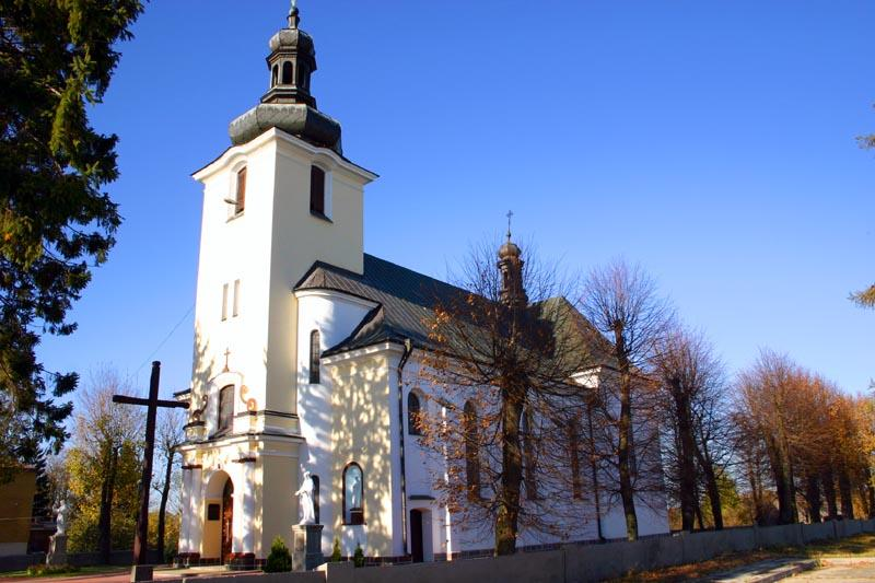 Our Lady Queen of Crown of the Kingdom of Poland church in Kopcie, Poland.